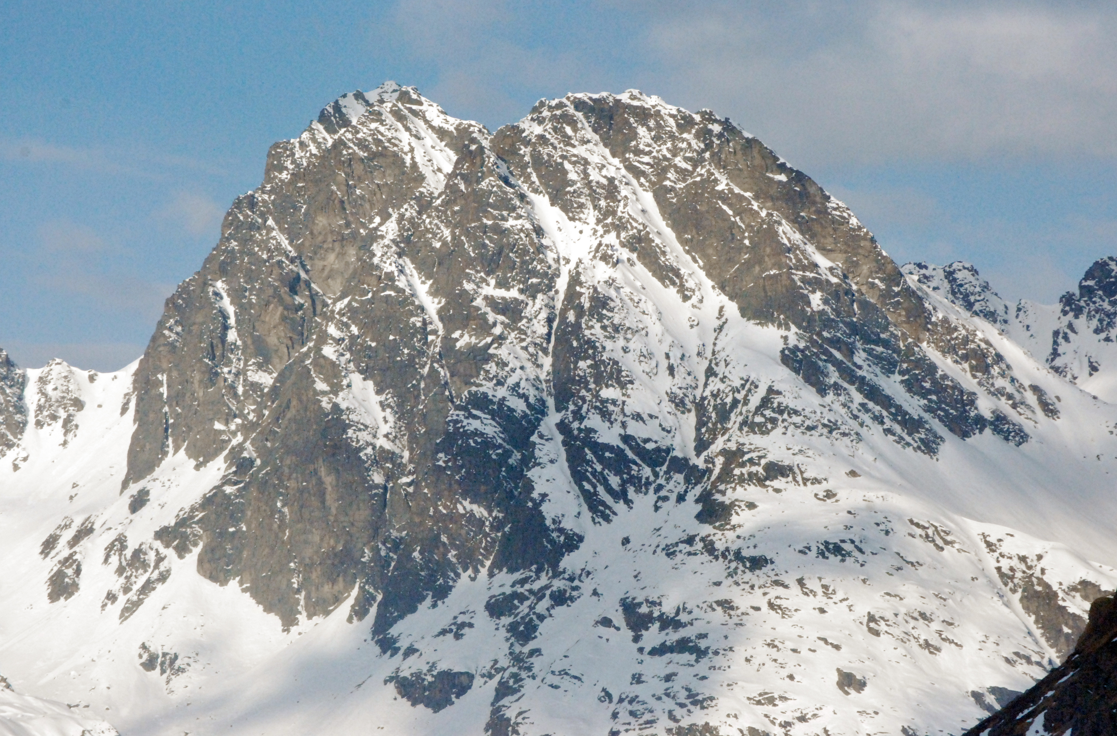 Hochmaderer from E (Bieler Höhe)